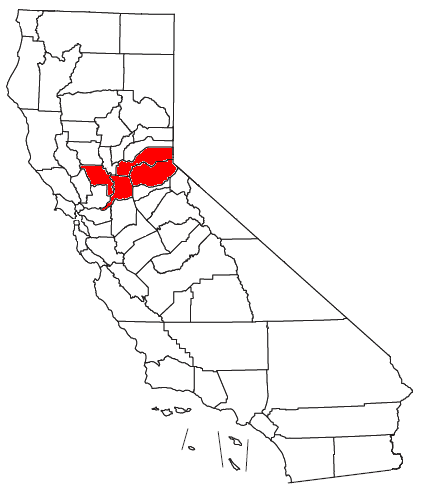 Locator map of the Sacramento-Arden-Arcade-Roseville Metropolitan Statistical Area in the northern part of the U.S. state of California.